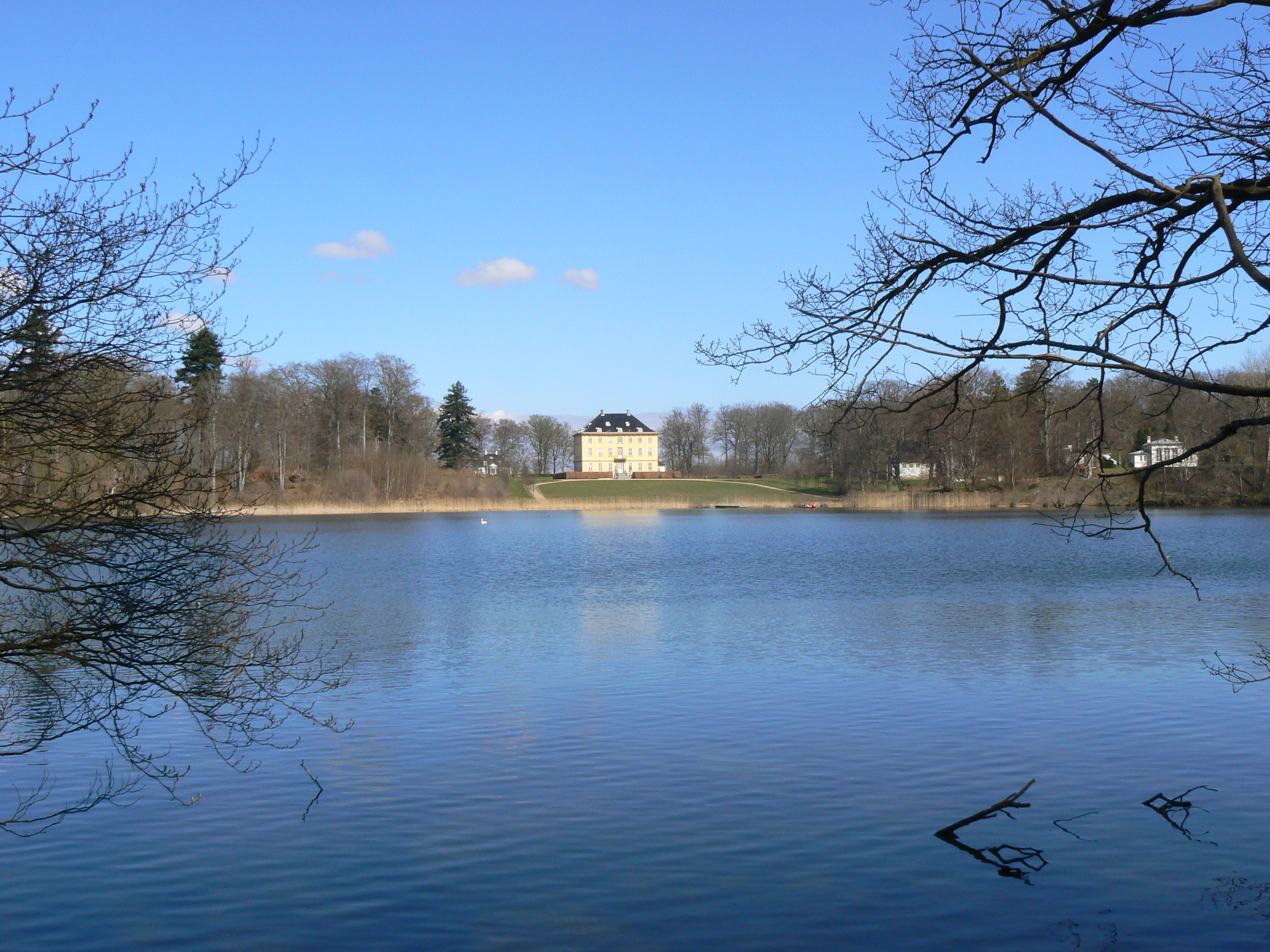 A view of Næsseslottet and the surrounding parklands at Furesø north of Copenhagen, Denmark